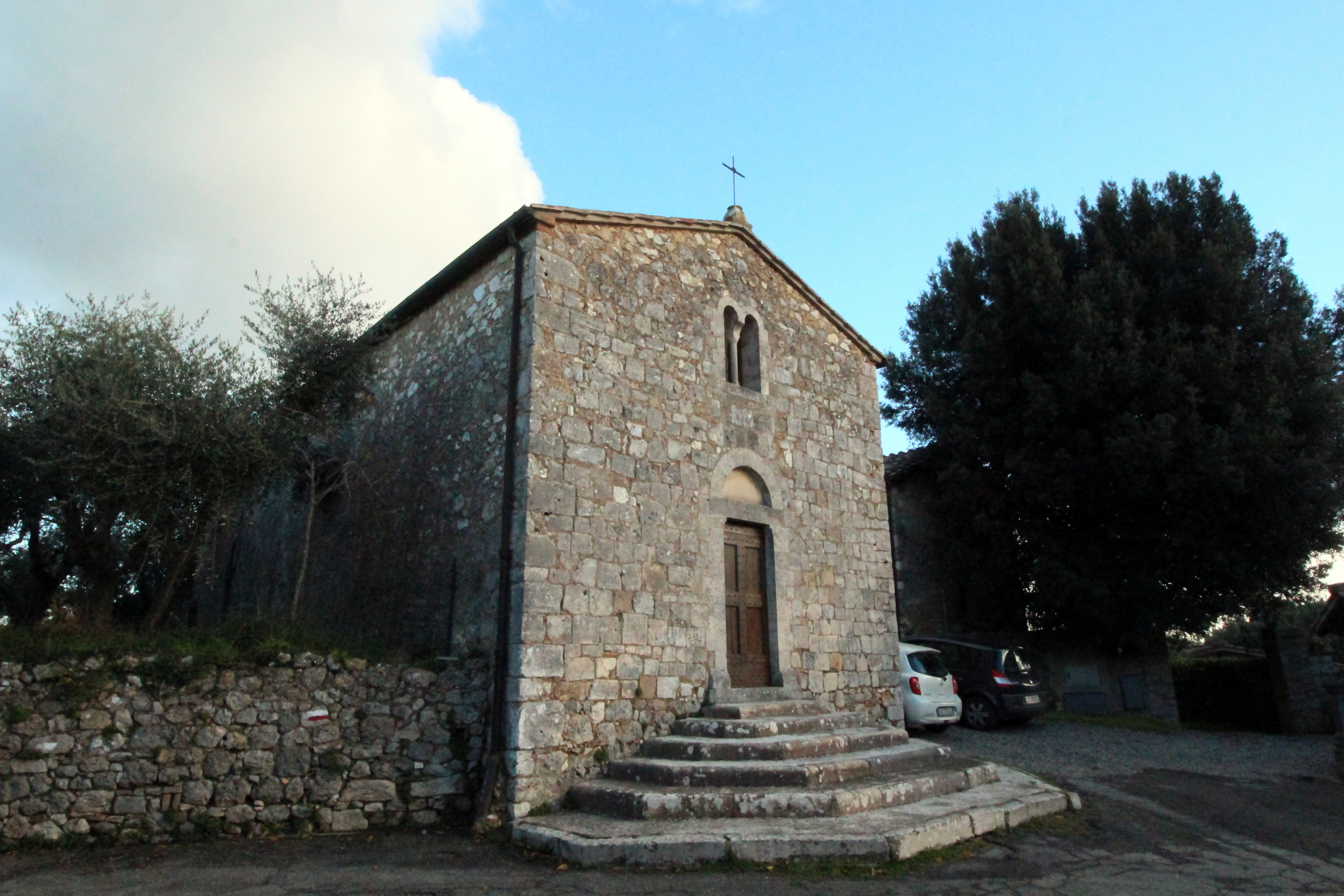 Church Santi Bartolomeo e Quirico, in Tonni, village of Sovicille, Province of Siena, Tuscany, Italy